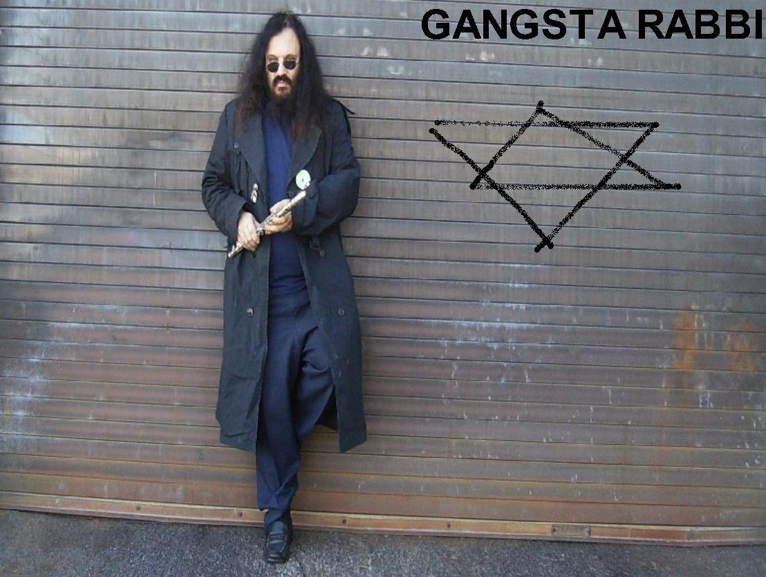 Steve Lieberman with curved headed flute 2007